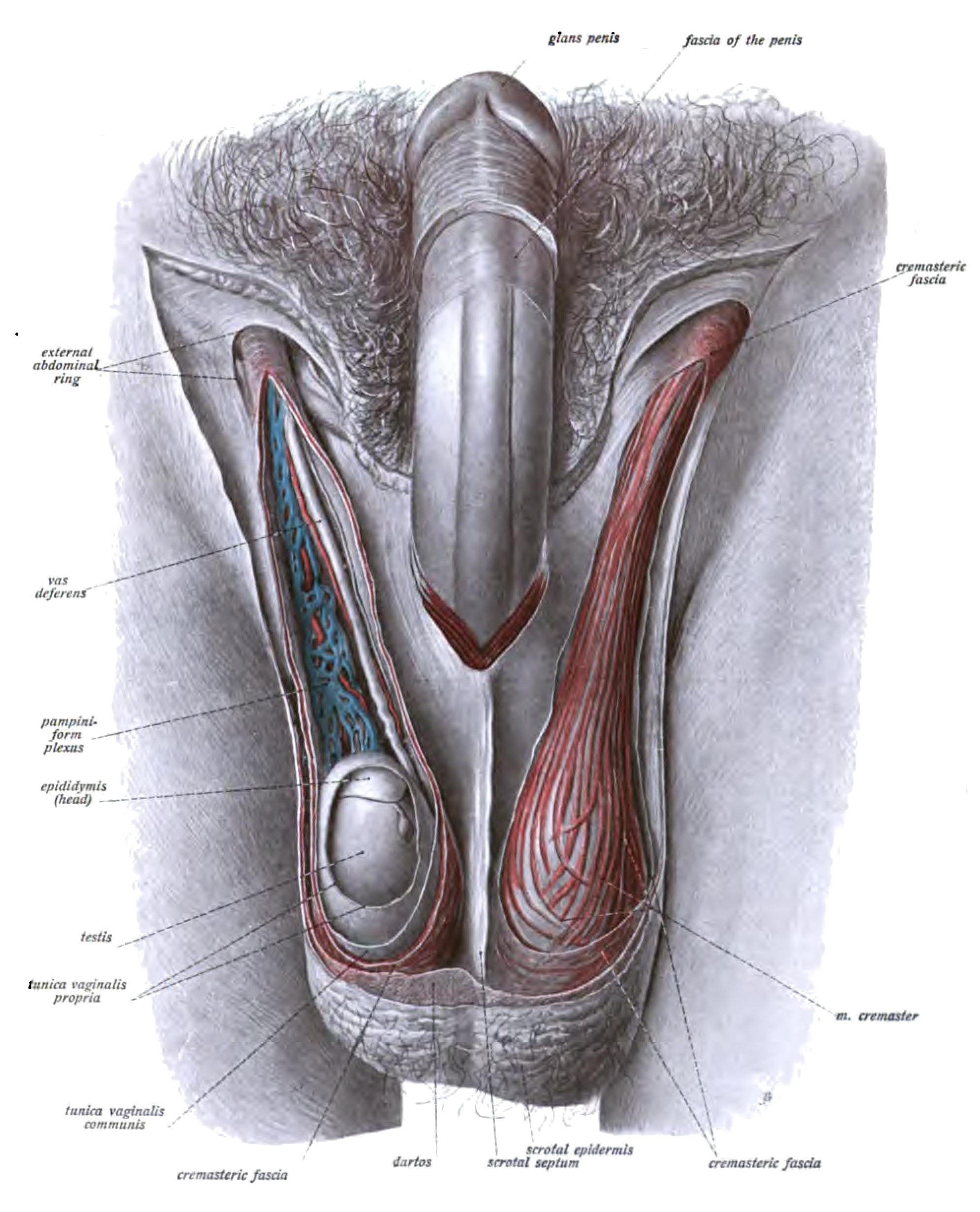 An anatomical illustration from the 1906 edition of Sobotta's Atlas and Text-book of Human Anatomy with English Terminology